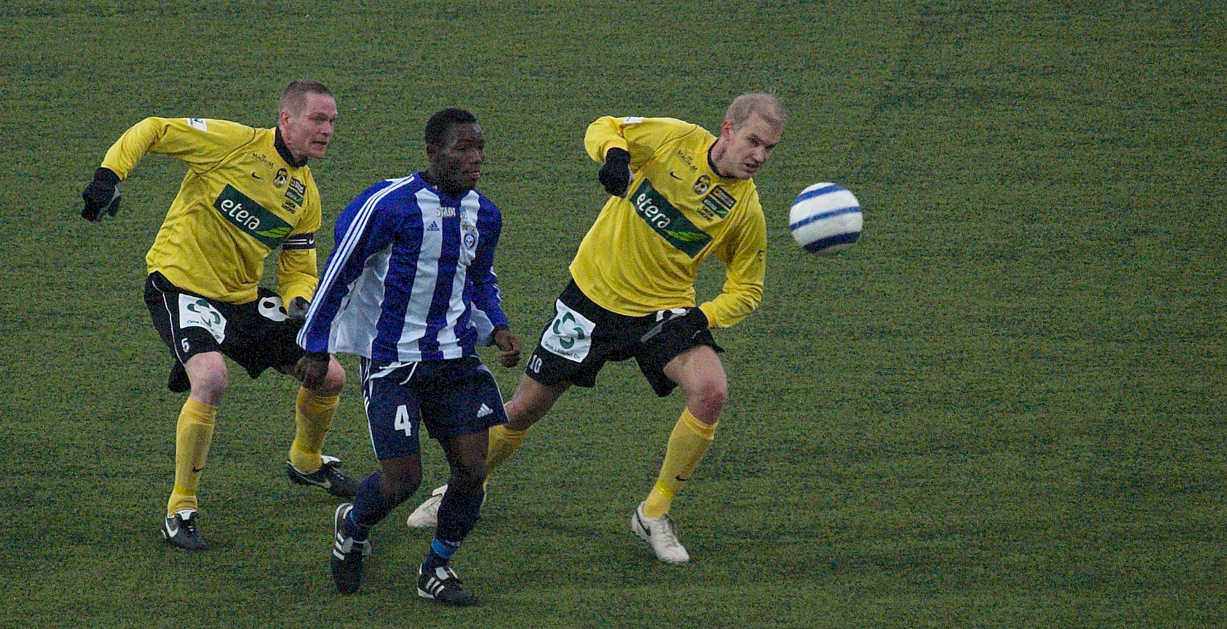 Defender Jani Hartikainen (KuPS, captain) and striker Ilja Venäläinen have sandwiched their old team-mate Medo (Mohamed Kamara) of HJK. Game: Kuopion Palloseura (KuPS) - Helsingin Jalkapalloklubi (HJK), Finnish (Premier) League Cup, 11th March 2008 at Magnum Areena, Kuopio. Game ended 1-2 (1-2). Christopher Joyce (0-1, 15min) Tuomas Aho (0-2, 38min) Patrik Turunen (1-2, 45min)